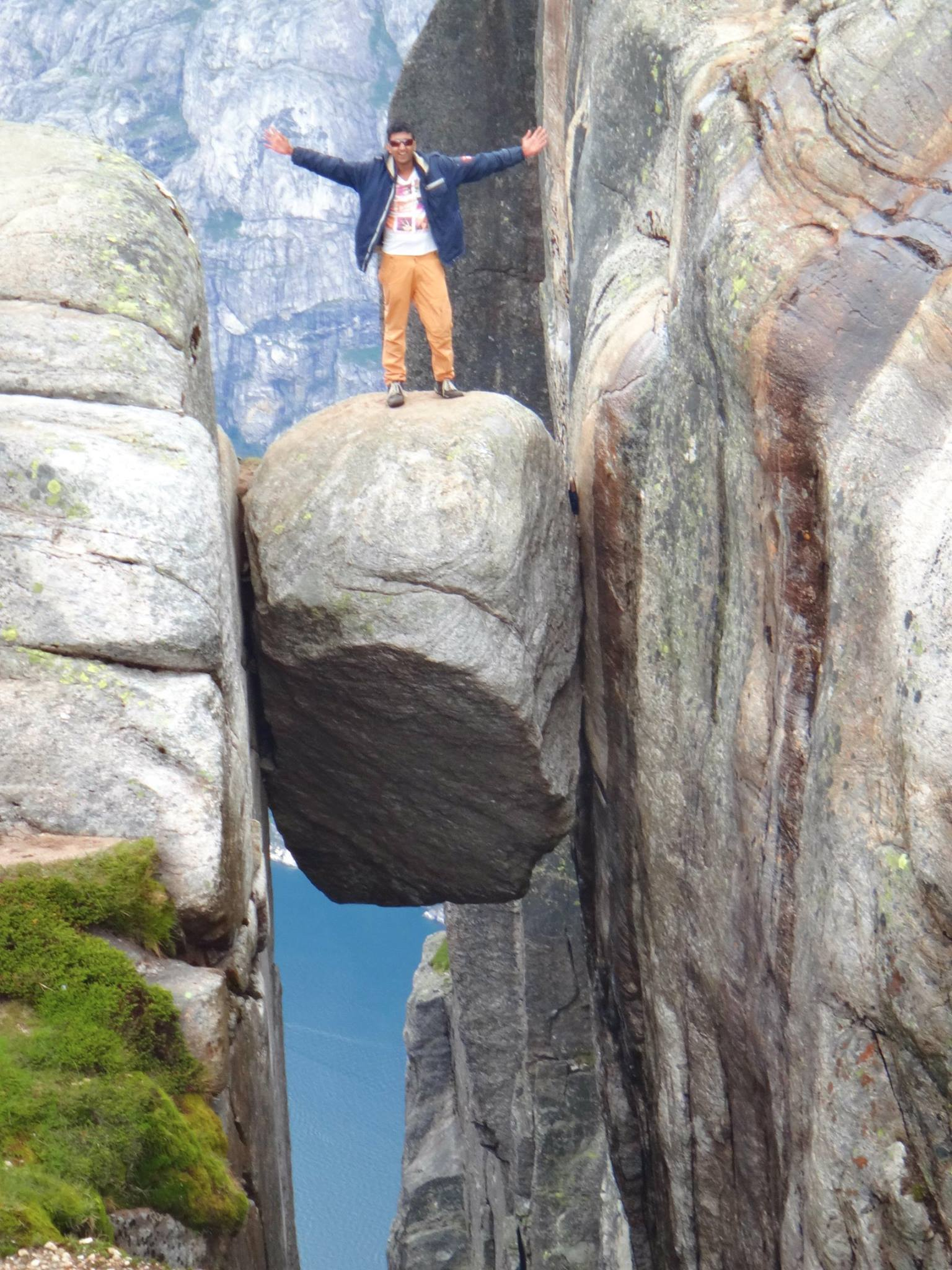 A man standing on KjeragBolten